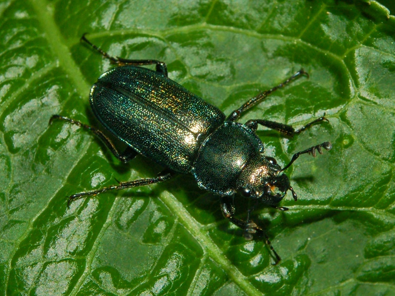 Platycerus caraboides, Val Noci, Genova, Italy